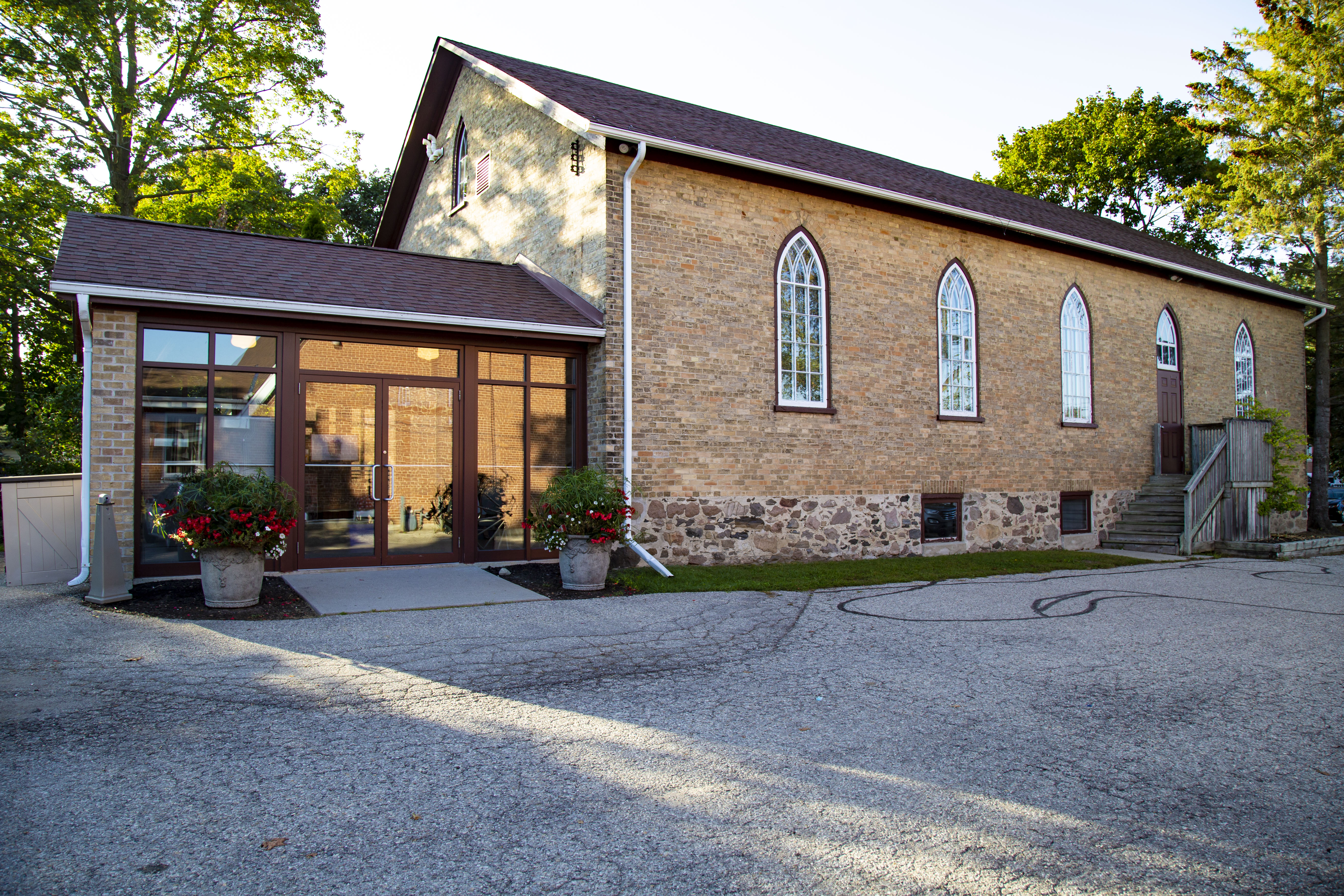 St Jacobs Schoolhouse Theatre